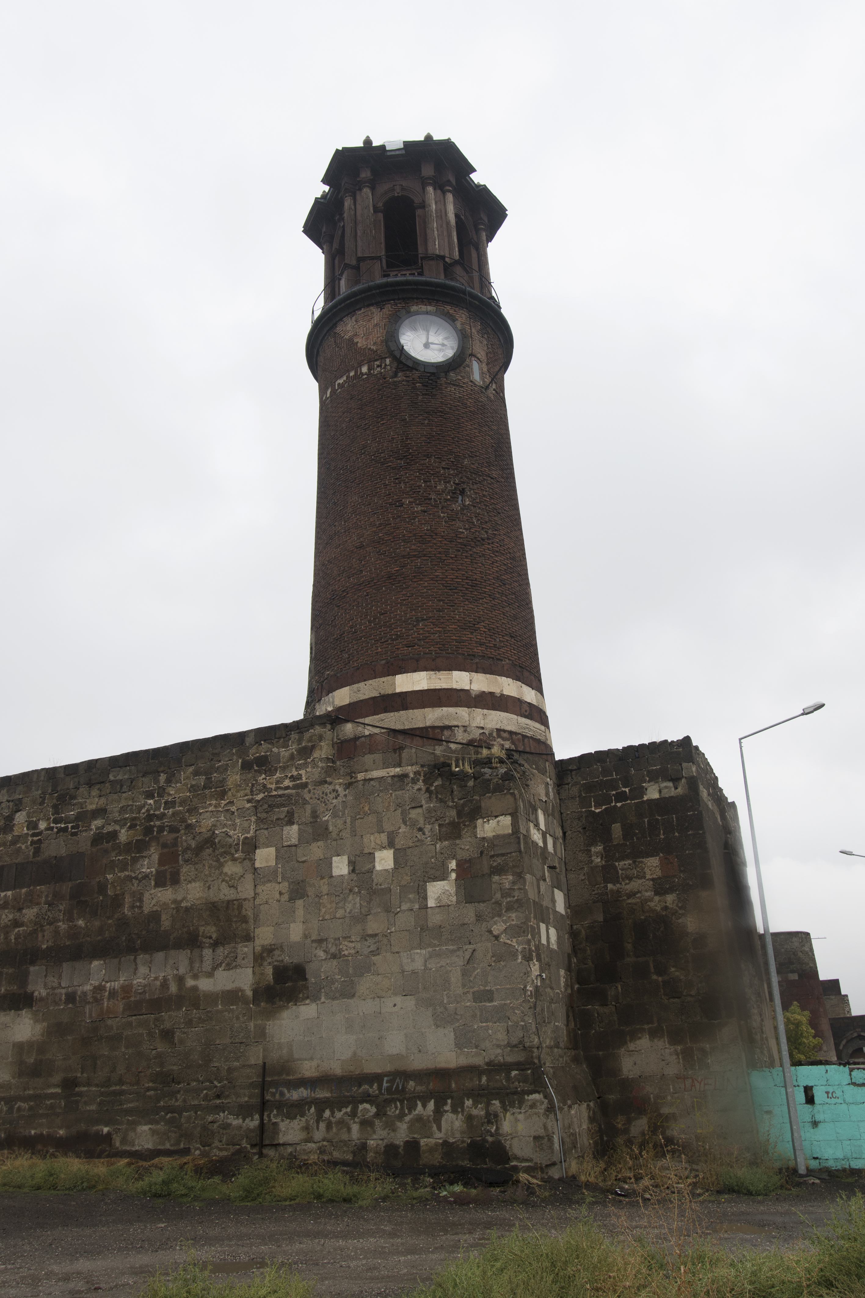 View of Tepsi Minaret (aka Clock tower) at Erzurum Citadel in a rainy day. Erzurum, Turkey.